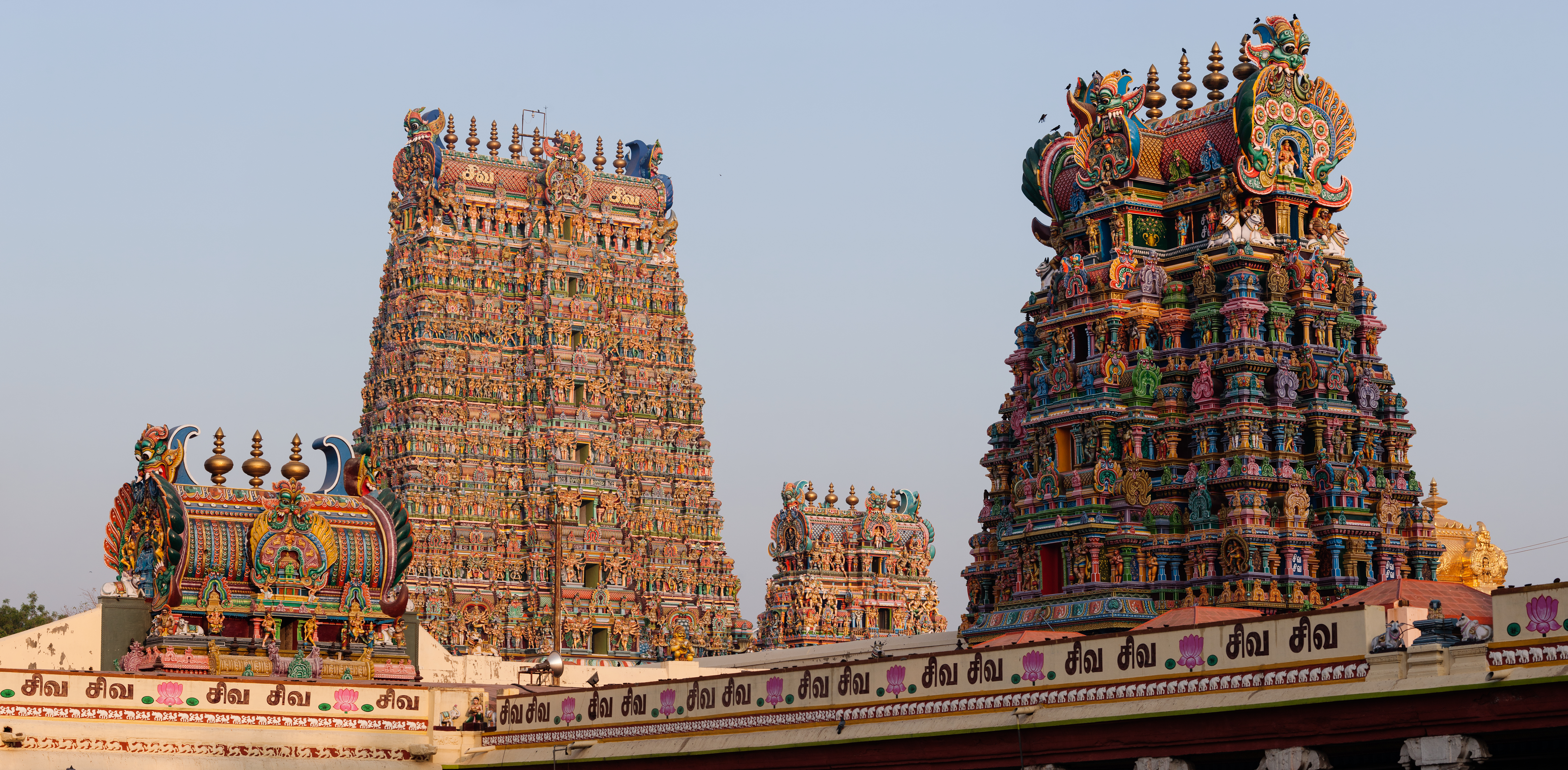 West tower of the Meenakshi Amman Temple in Madurai, Tamil Nadu, India.